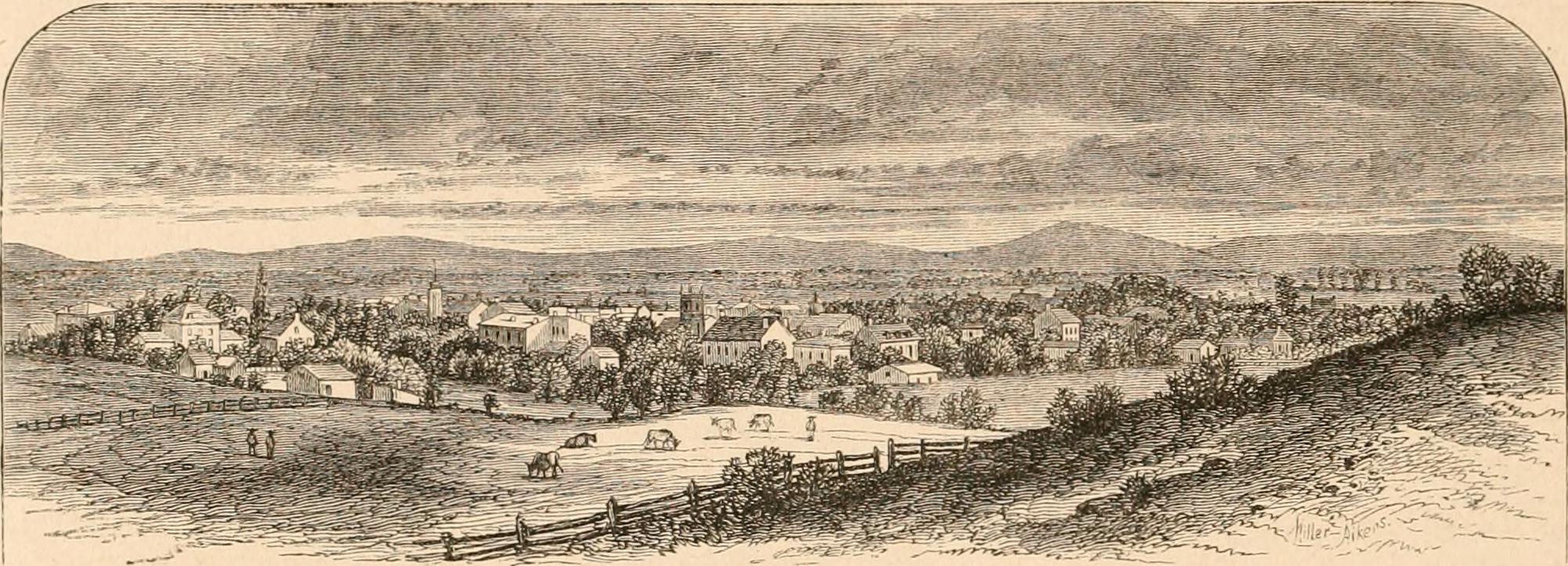 Circa 1875 view of Winchester, Virginia.